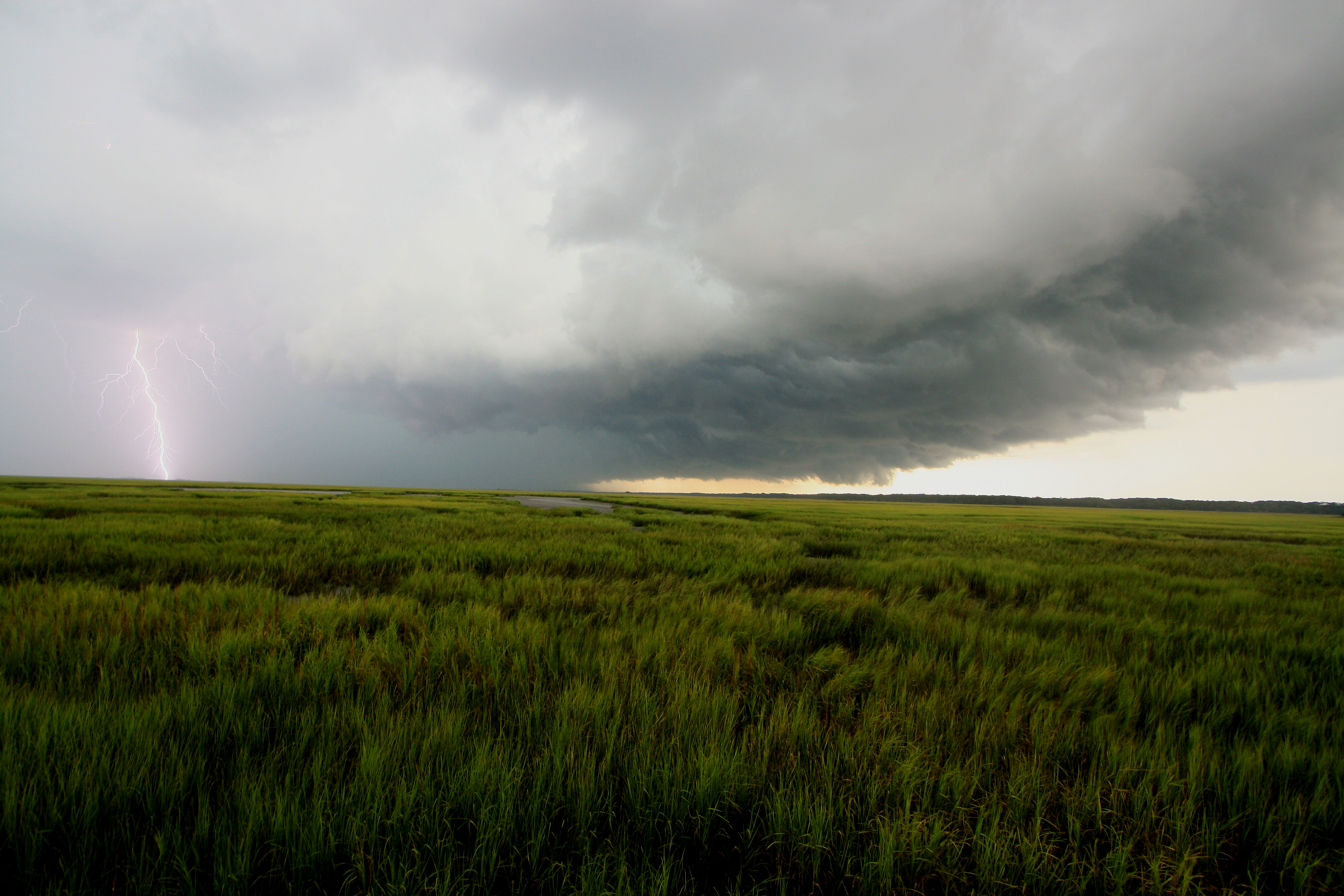 I managed to capture this lightning while taking a hand-held photo.